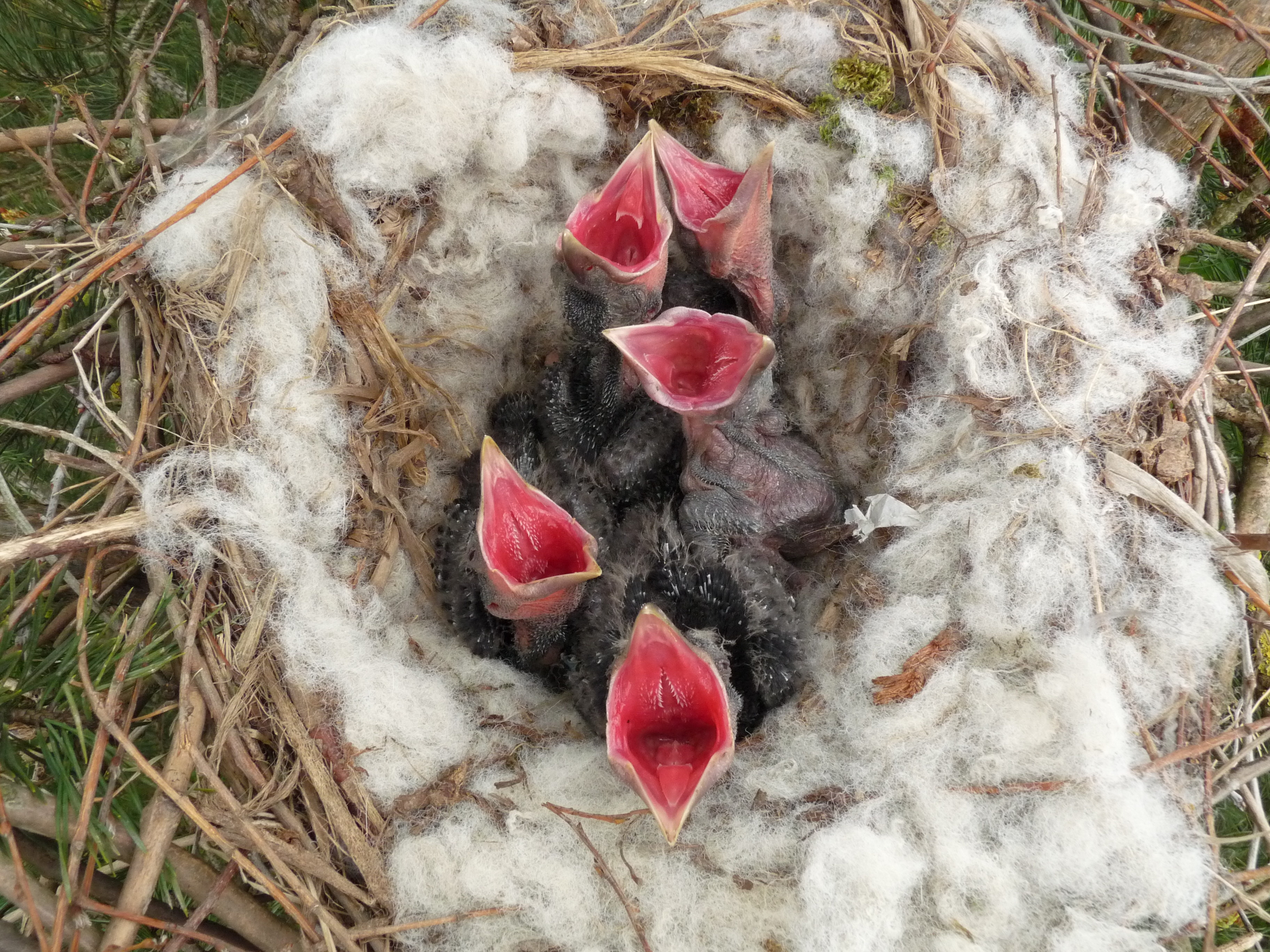 5 horrible mouths waiting to be filled with baby nestling's of other birds. getting them to open their mouths was easy, I just made a crow noise and they just sat up and begged. Latin name Corvus corone Family Crows and allies (Corvidae) Overview The all-black carrion crow is one of the cleverest, most adaptable of our birds. It is often quite fearless, although it can be wary of man. They are fairly solitary, usually found alone or in pairs. The closely related hooded crow has recently been split as a separate species. Carrion crows will come to gardens for food and although often cautious initially, they soon learn when it is safe, and will return repeatedly to take advantage of whatever is on offer. Where to see them Found almost everywhere, from the centre of cities to upland moorlands, and from woodlands to seashore. When to see them All year round. What they eat Carrion, insects, worms, seeds, fruit and any scraps.